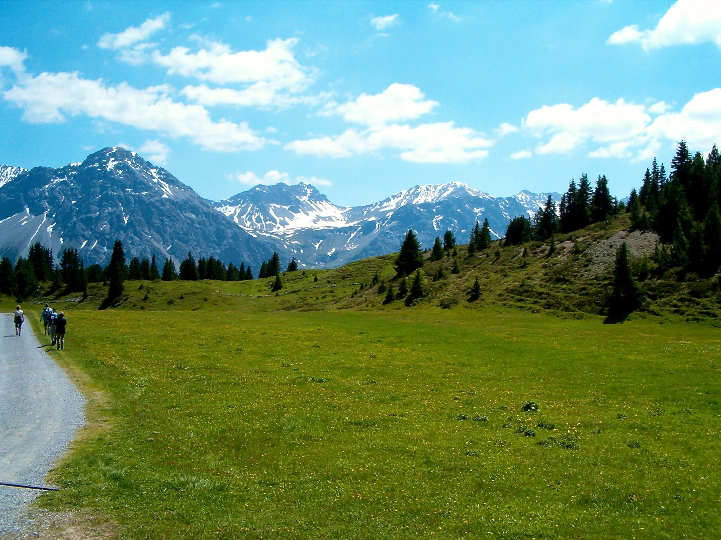 Grassland called "Place General Henri Guisan" near Arosa, Switzerland